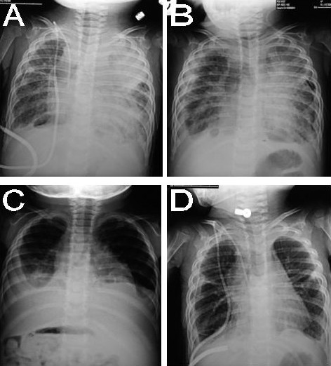 Pulmonary Lymphangiectasia. Chest radiographs, AP views